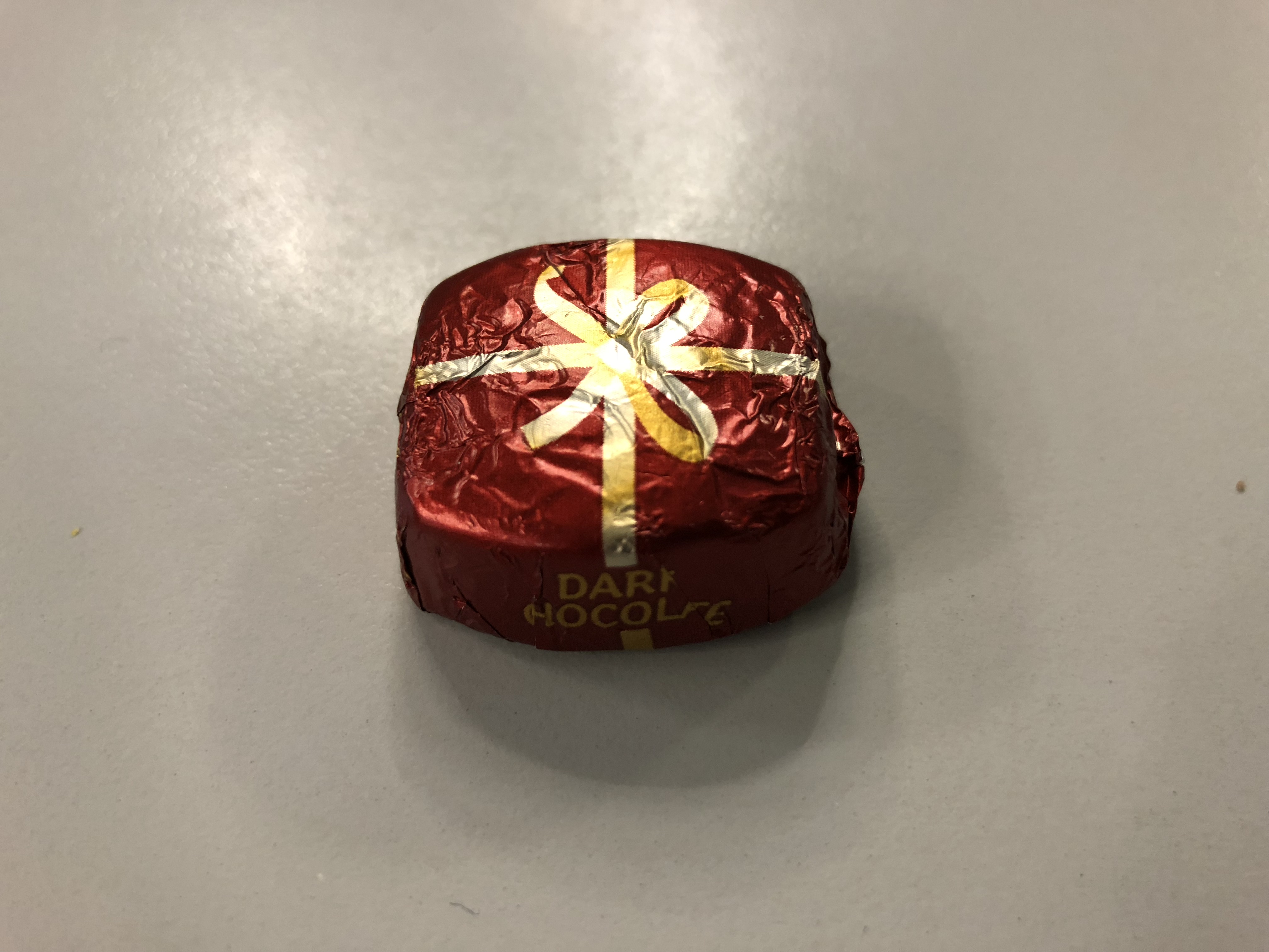 A wrapped Dove dark chocolate candy shaped like a Christmas present in the Dulles section of Sterling, Loudoun County, Virginia